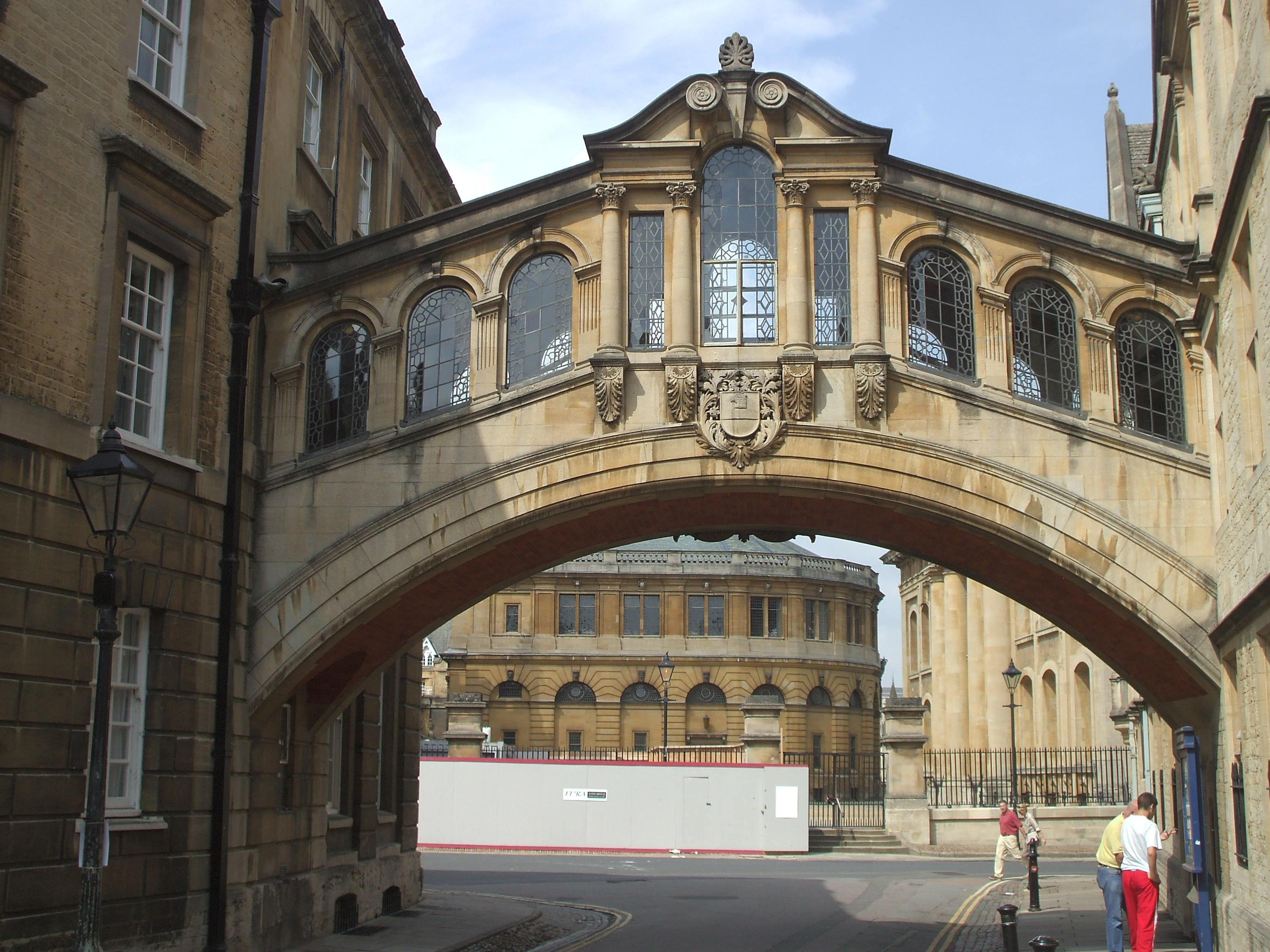 The Bridge of Sighs, Oxford, looking west towards Catte Street and the Sheldonian Theatre.